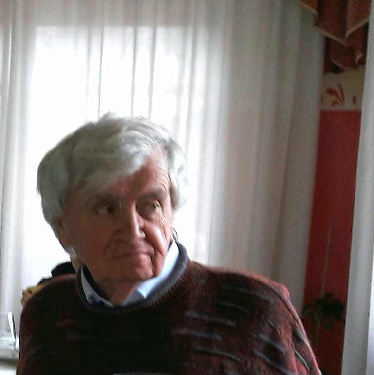 Photo of Prof. Vladimir Belinski